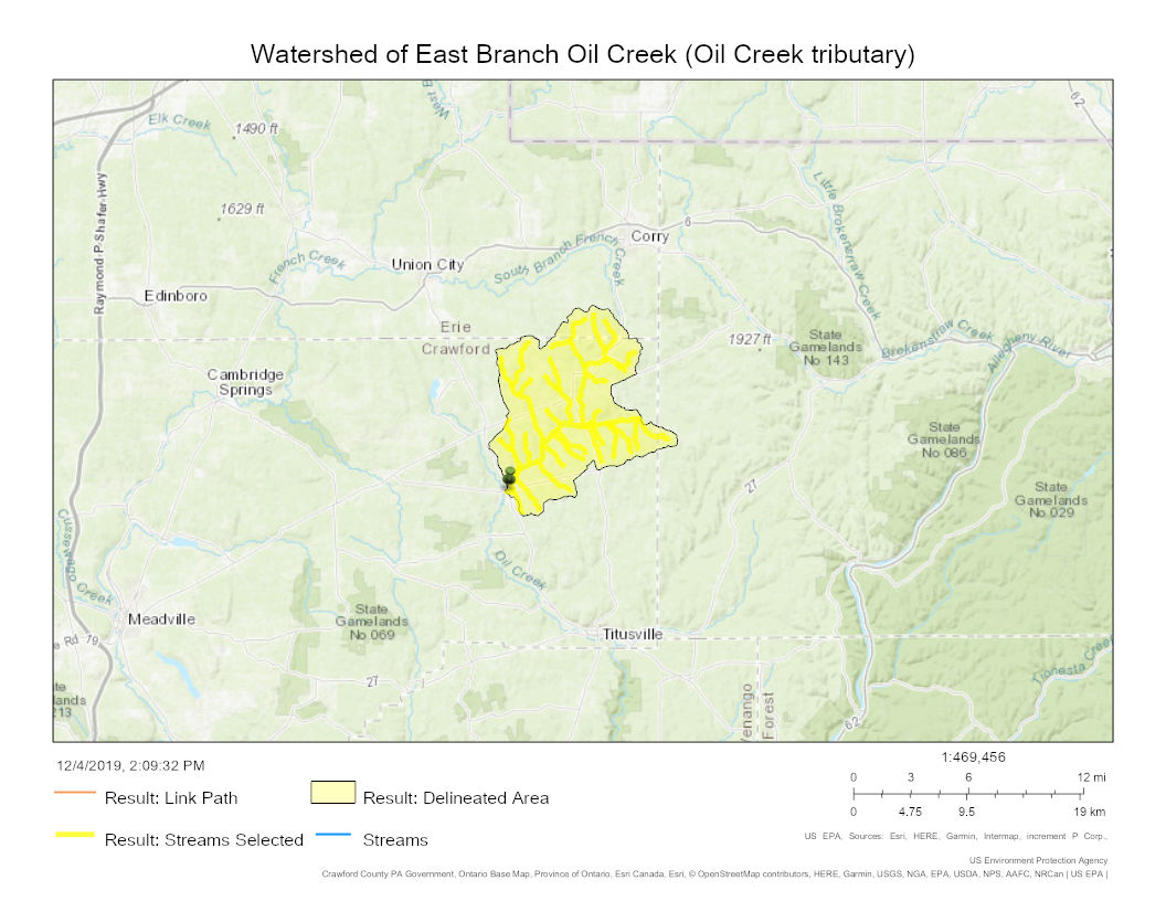 Map of the watershed of East Branch Oil Creek (Oil Creek tributary) in Crawford and Erie Counties, Pennsylvania.